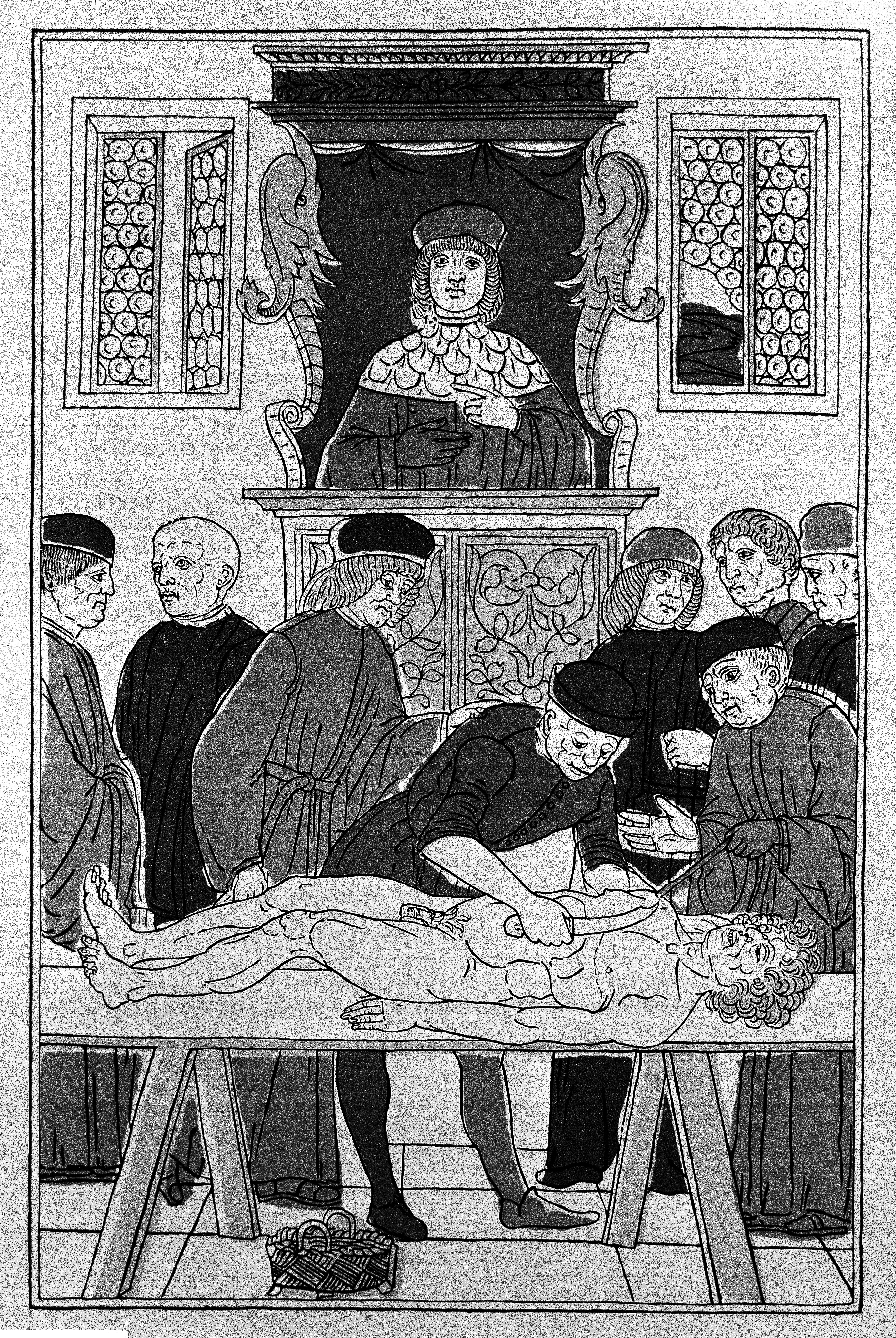 Woodcut of anatomical dissection. General Collections Keywords: Johannes de Ketham